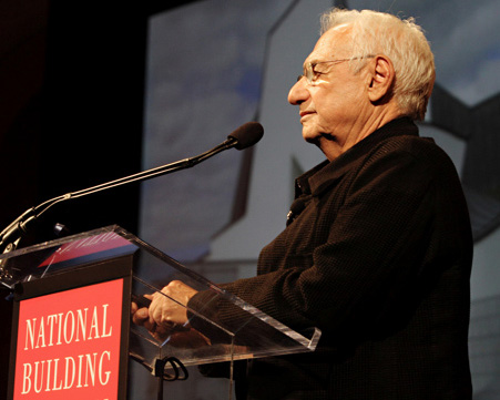 Frank Gehry, recipient of the 2007 Henry C. Turner Prize at the National Building Museum, giving a presentation about how the work of Gehry Partners and Gehry Technologies has driven construction innovation.